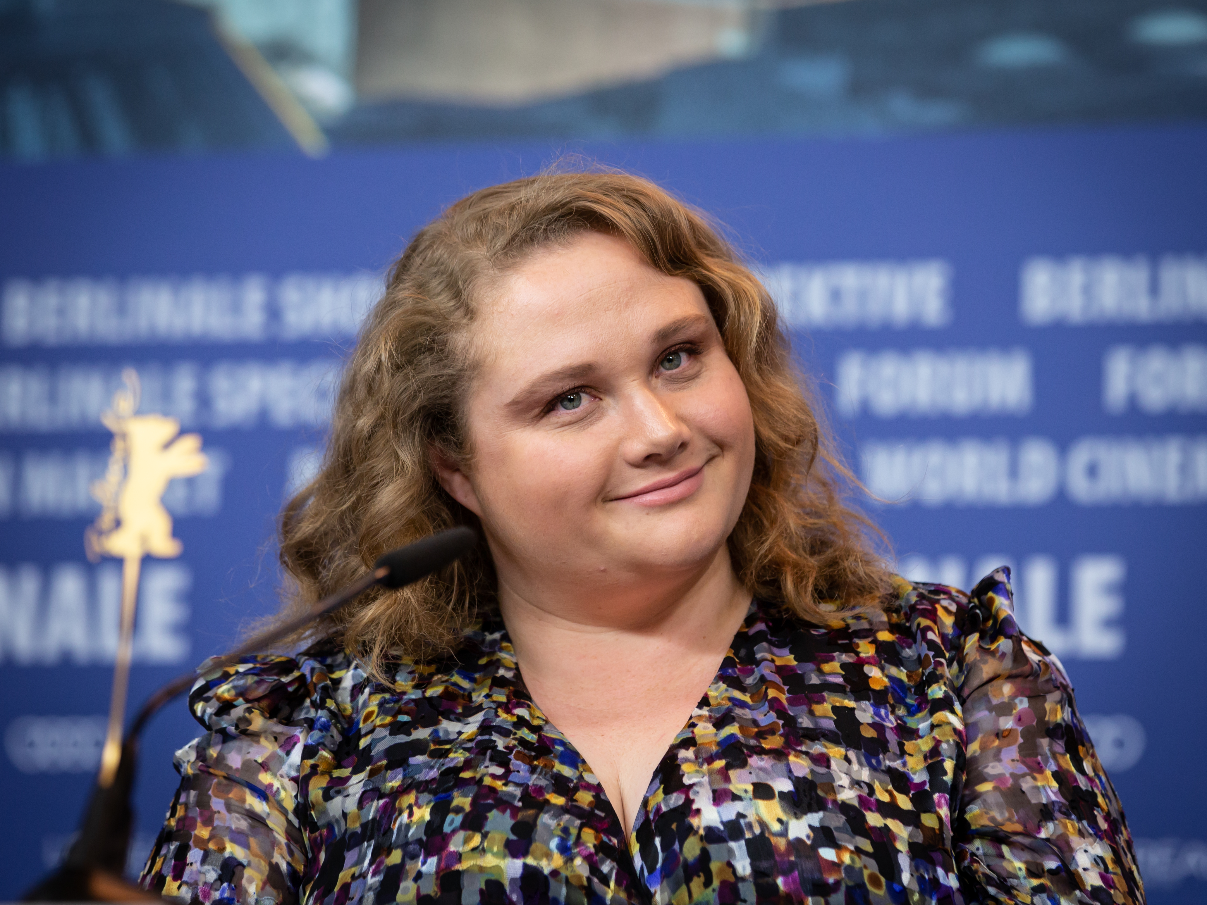 Actress Danielle Macdonald at the Berlinale 2019